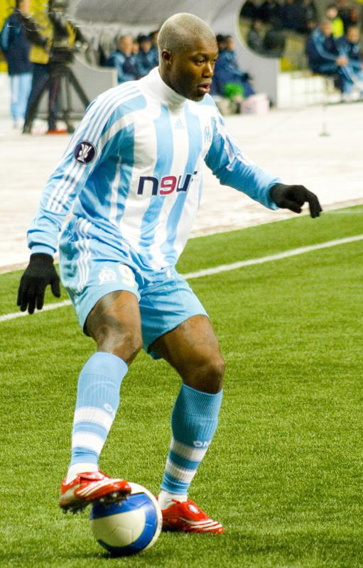 Djibril Cissé